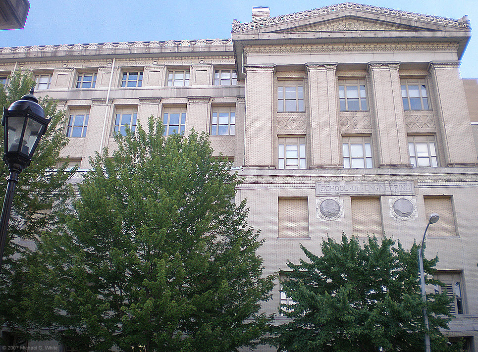 Thaw Hall at the University of Pittsburgh. photo by Michael G White